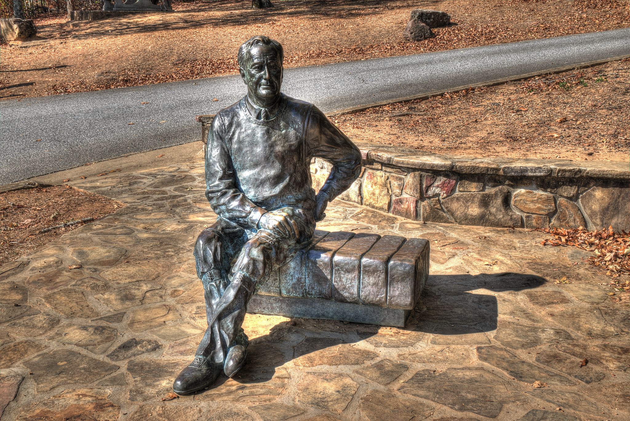 Sculpture at F. D. Roosevelt State Park, Georgia